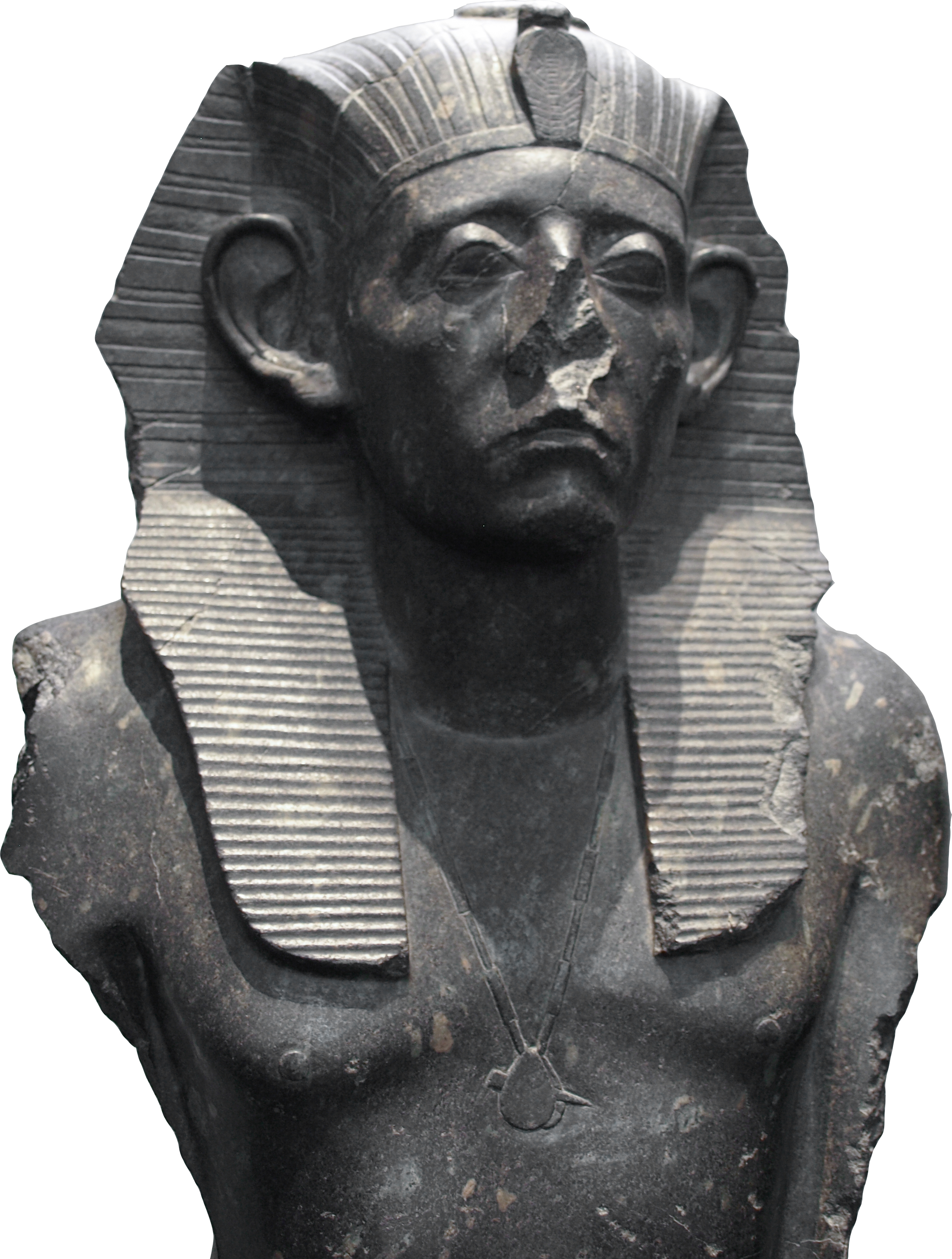 One of three black granite statues of the pharaoh Sesotris III on display at the British Museum. Background knocked out for clarity. From the time of the 12th dynasty, circa 1850 BC. Originally from Deir el-Bahri. EA 684.